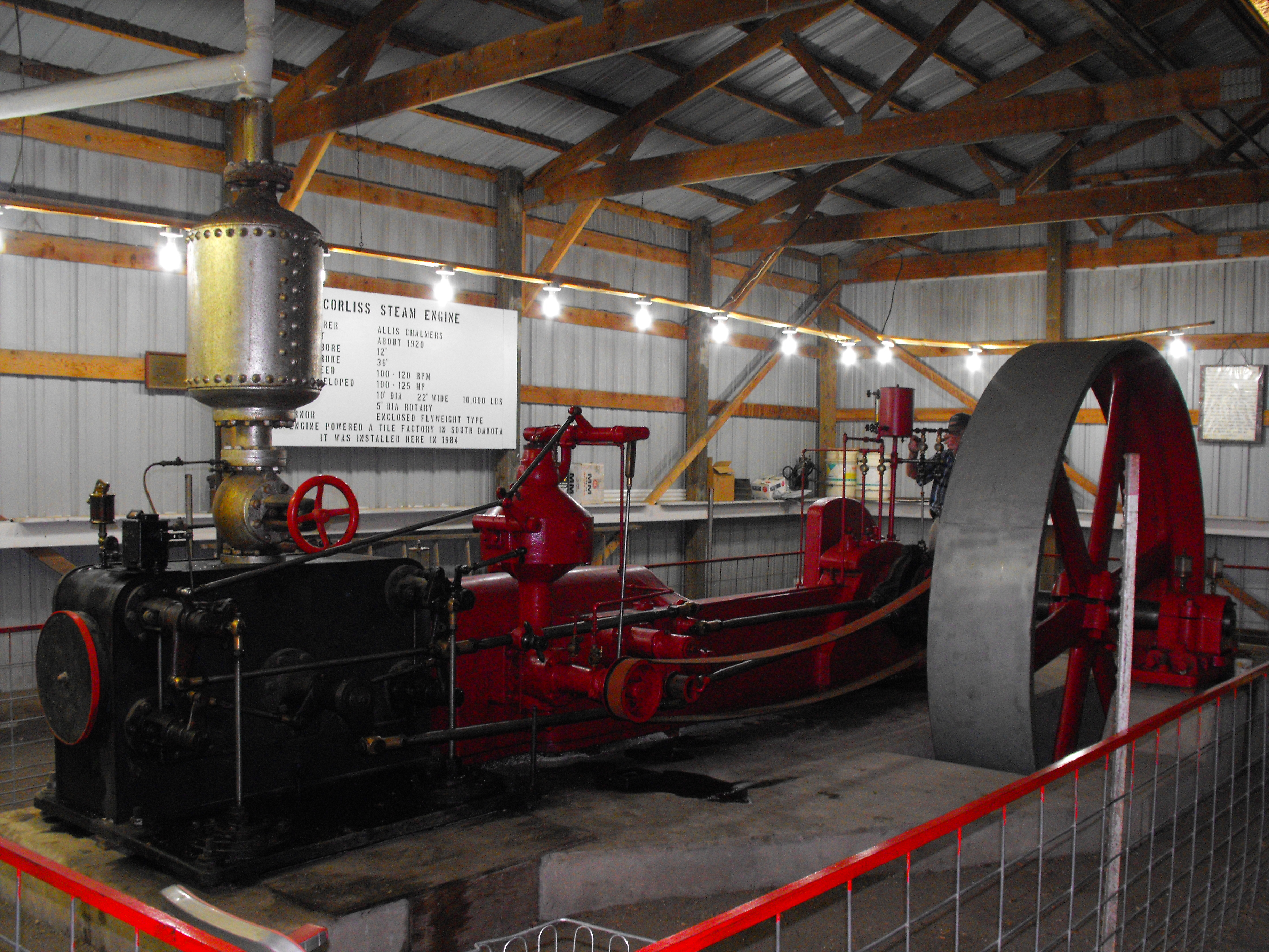 120HP Corliss steam engine manufactured by Allis Chalmers. It's located at Albert City, Iowa and was photographed at the Albert City Threshermen & Collectors Show.